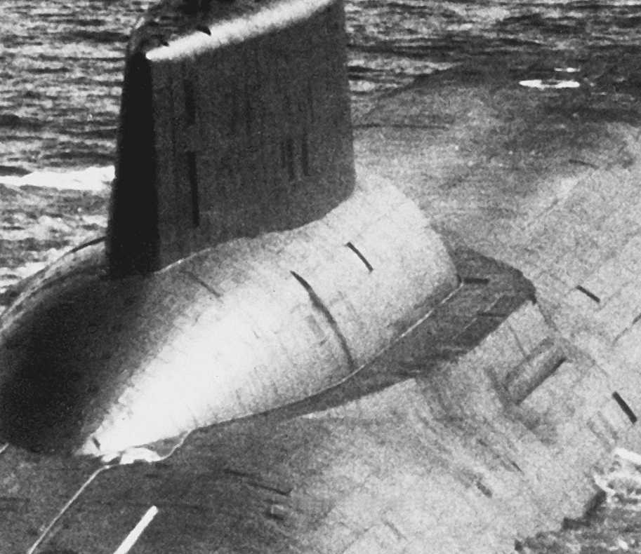 A starboard quarter view of a Soviet Project 941 "Akula" class (NATO reporting name: "Typhoon") ballistic missile submarine underway.